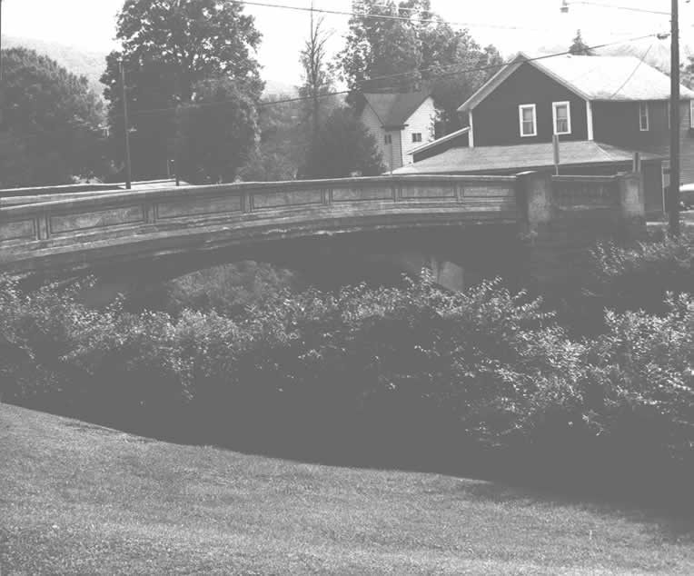 Side of the Bridge in Westover Borough, which carries Legislative Route 17003/Township Route 185 over Chest Creek in Westover, Pennsylvania, United States. Built in 1917, this open spandrel concrete arch bridge is listed on the National Register of Historic Places.